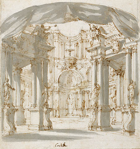 A preliminary set design by Filippo Juvarra for Antonio Caldara's opera Tito e Berenice (premiered Rome, 1714)